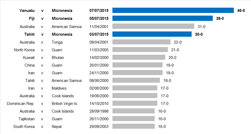 A bar chart illustrating the largest margins of victory in international football since 1997, focussing specifically on the Federated States of Micronesia national under-23 football team.